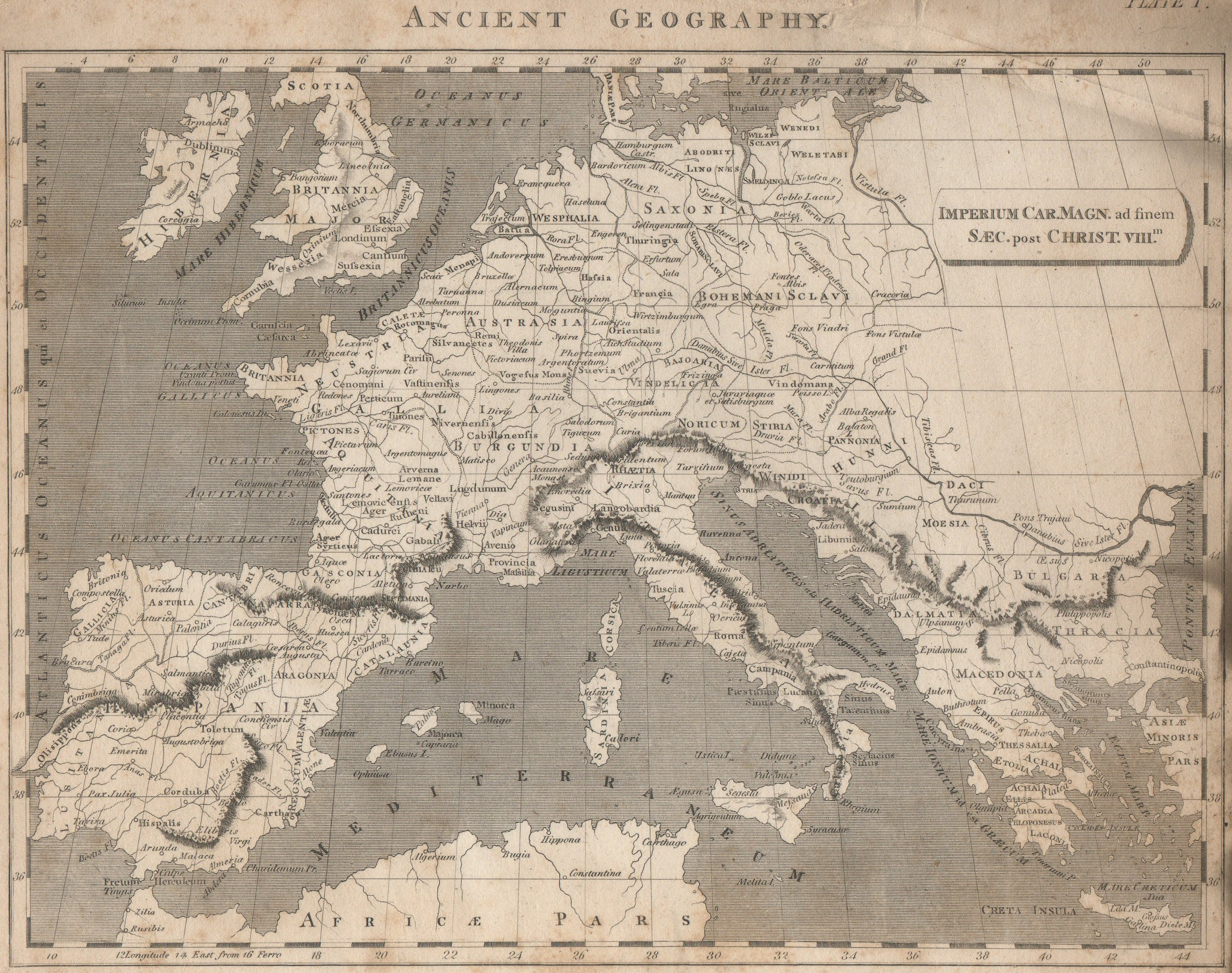 Depiction of 8th century AD Europe as found in volume 6 of Rees's Cyclopædia.